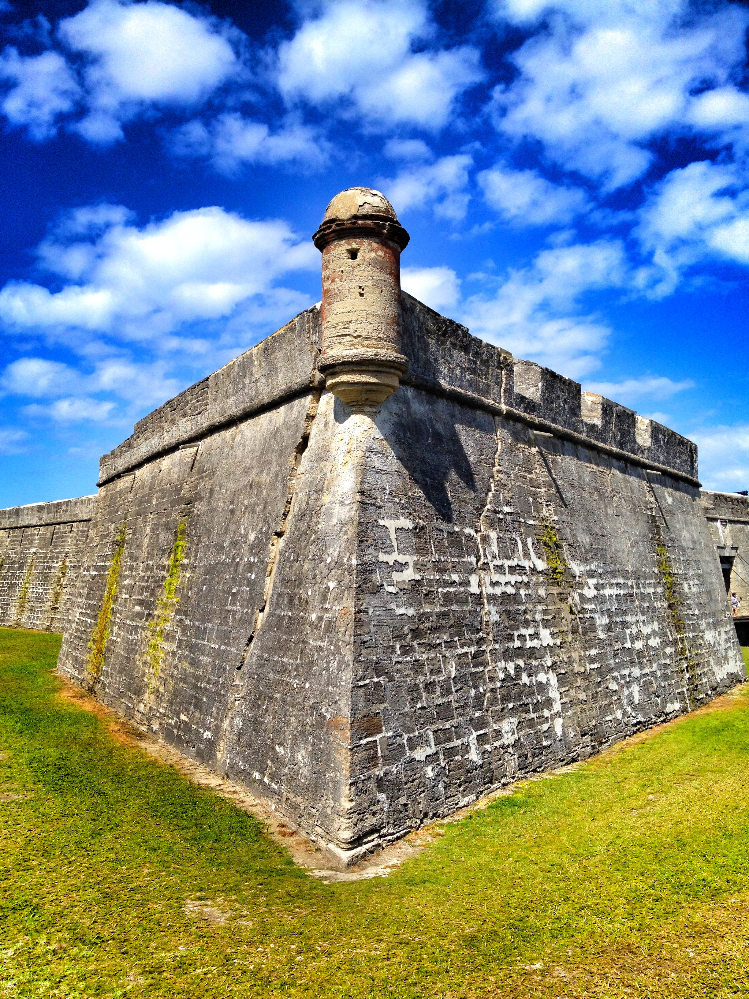 Castillo St Augustine